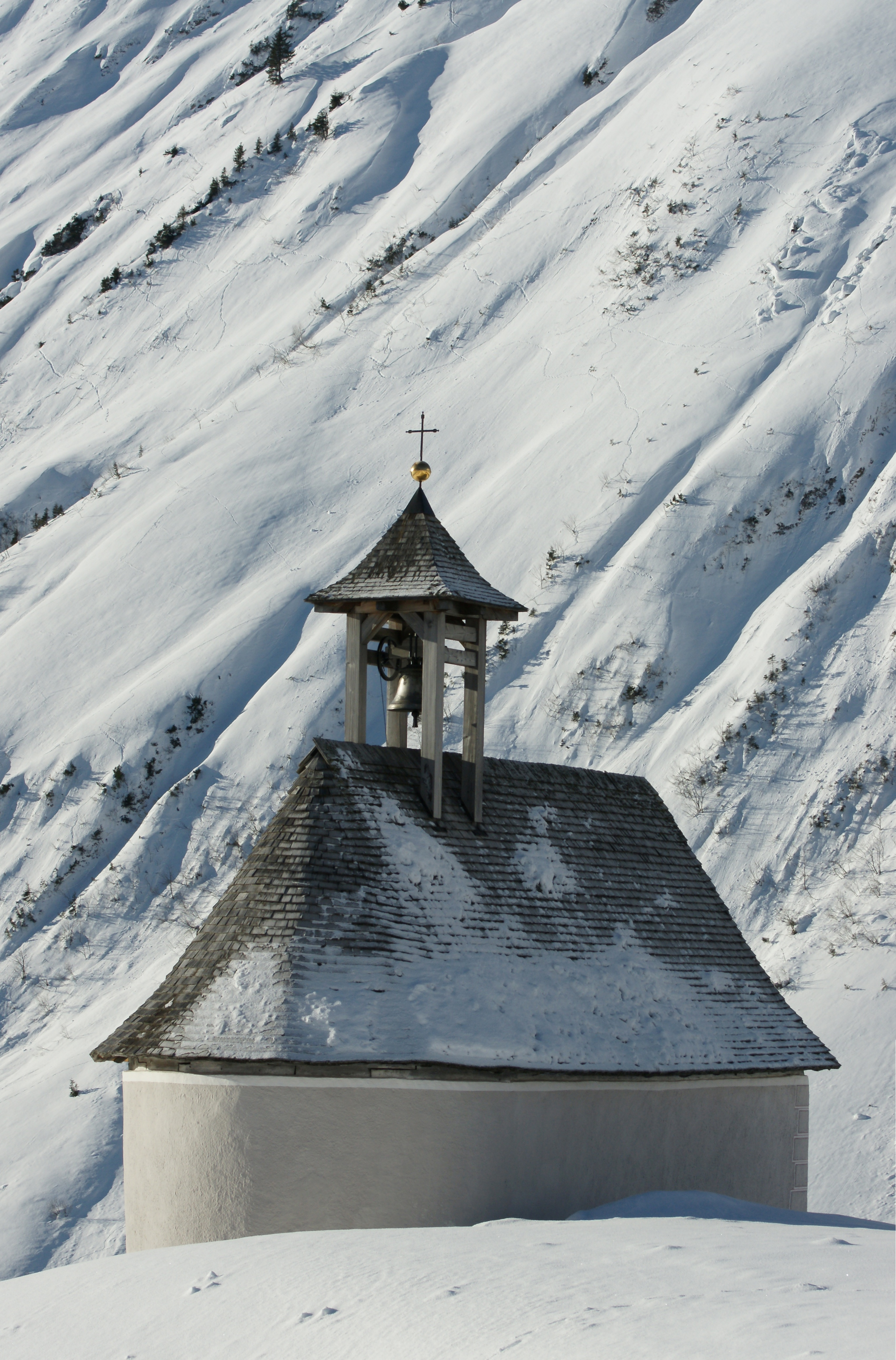 Chapel of St. Anna in Fontanella - Faschina. The steep slope in the background belongs to Sonnenköpfle. from Vorarlberg Dehio 1983: By 1700 as a foundation of Dr. Josef Hartmann (later Mayor of Vienna 1717-1720) was built. Restored 1951-52. Rectangular construction with circular apse under common gable roof and bell riders in the east. In the West, with a roof sign on 2 columns, shingle west gable facade. Prayer Room flat-roofed boxes with wooden ceiling, round chancel arch confiscated, choir room with camber. Baroque altar construction around 1700, St. altarpiece. Anna Maria with, First 19th Century, figures Sts. The Virgin and child, Nicholas, Andreas deposited. Above the chancel arch Akanthuskartusche Relief with God the Father around 1700.